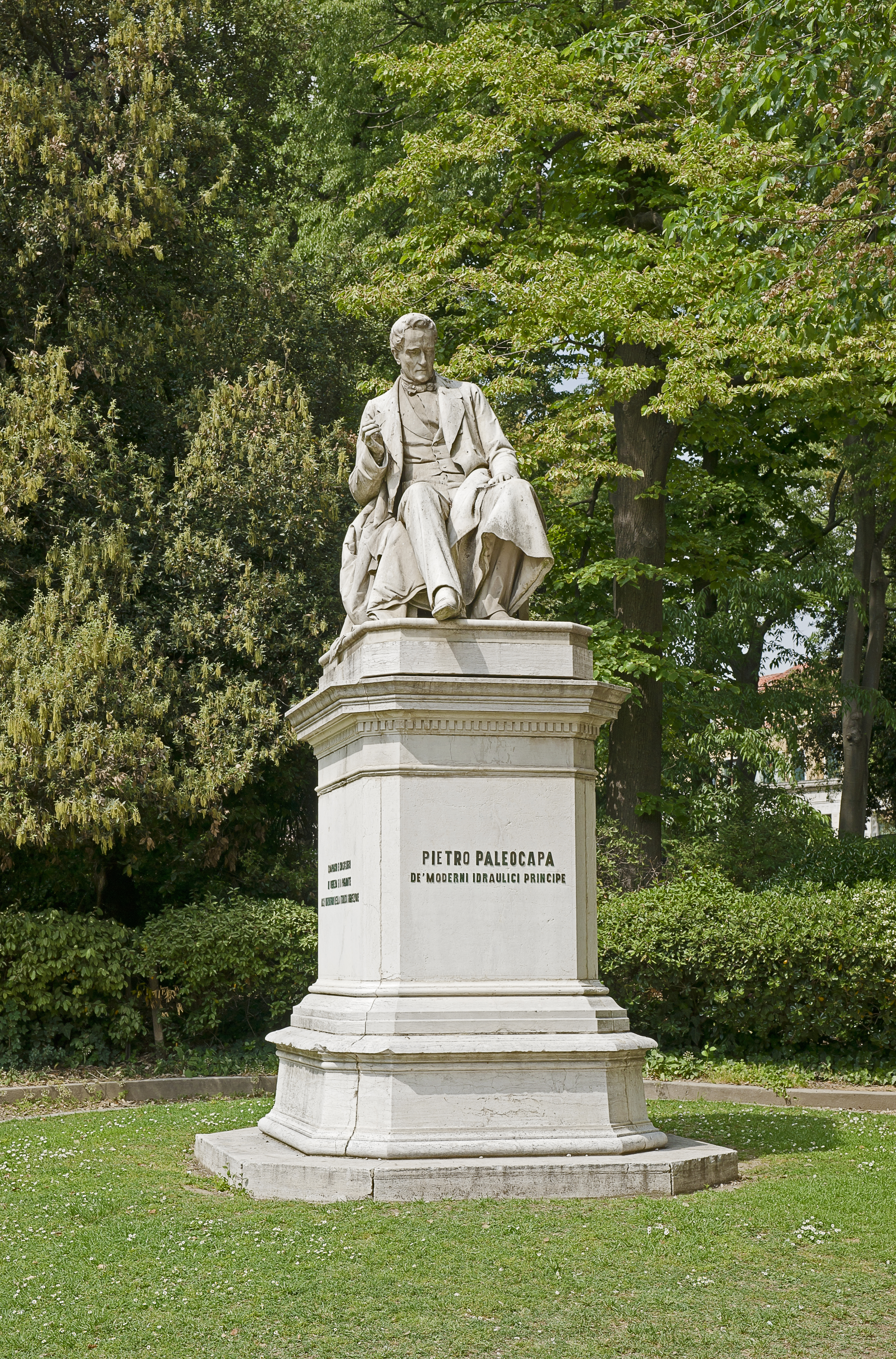 Statue of Pietro Paleocapa in Papadopoli’s garden in Venice